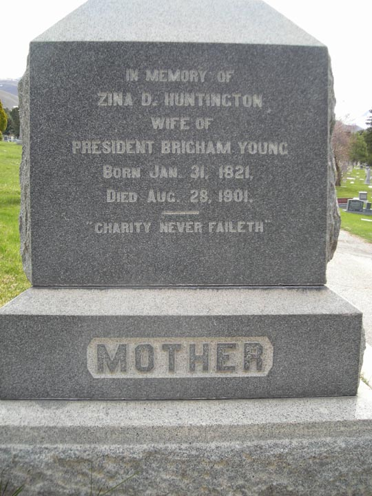 Gravemarker in Salt Lake Cemetery